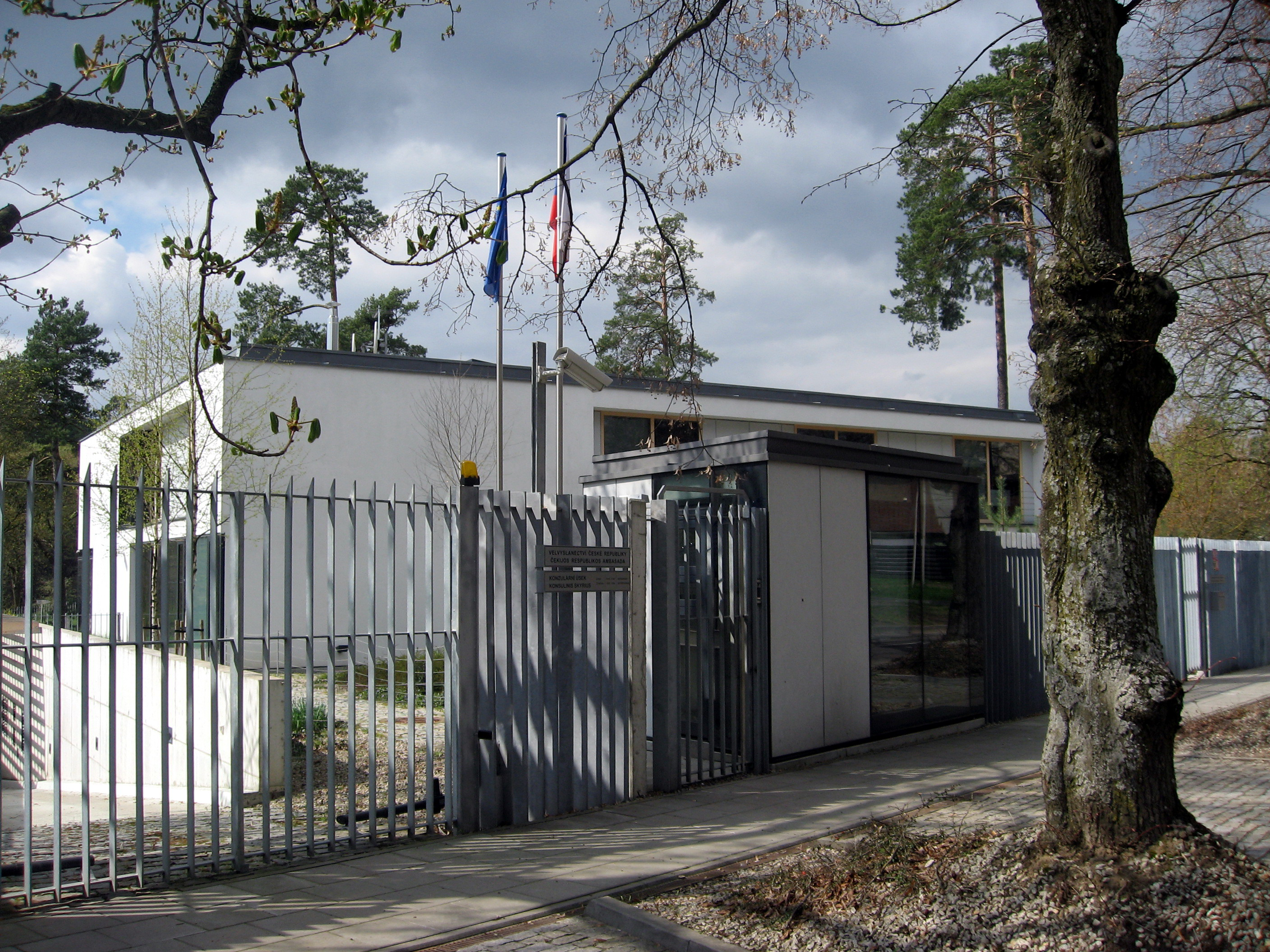 Vilnius, Embassy of Czechia in Lithuania